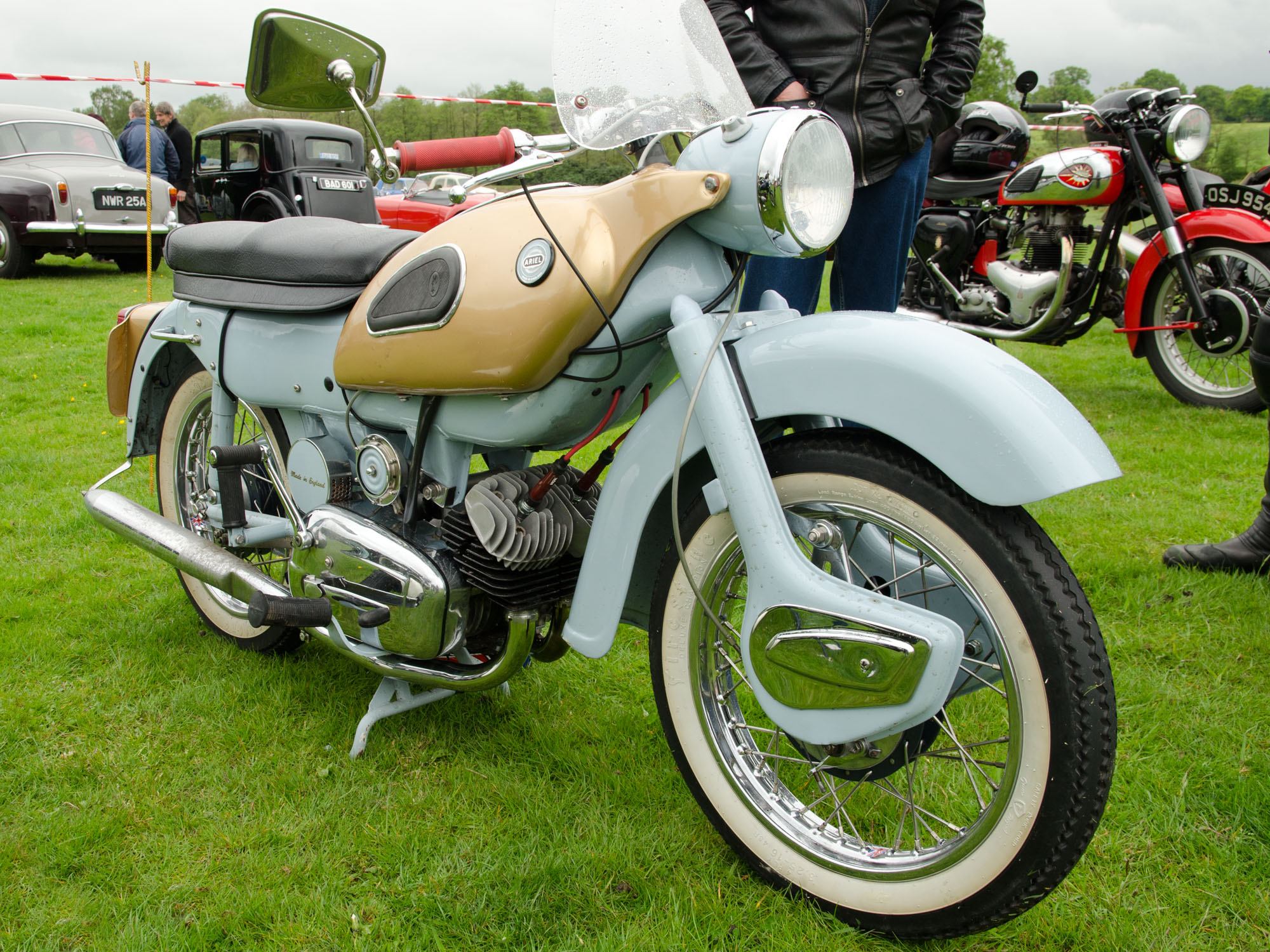 Capesthorne Hall Classic Car Show 24/05/2015